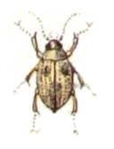 Peltodytes caesus, from Calwer's Käferbuch, Table 8, Picture 20. Taxonomy was updated to 2008, using mostly the sites Fauna Europaea and BioLib. Please contact Sarefo if the determination is wrong!